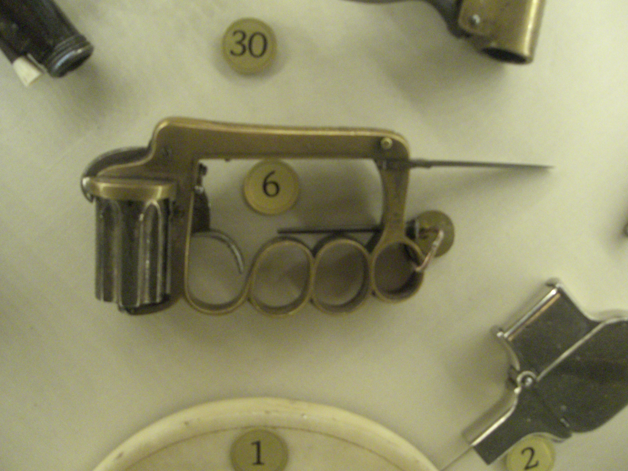 A Deleaxhe Apache pistol 7 mm cal. Taken at the National Firearms Museum